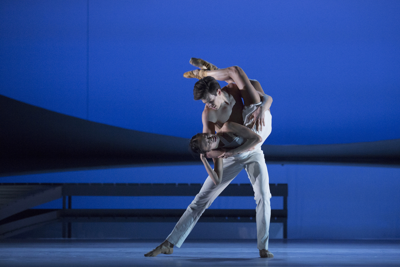 "Świtezianka" by Robert Bondara, Polish National Ballet, dancers: Yuka Ebihara & Kristóf Szabó